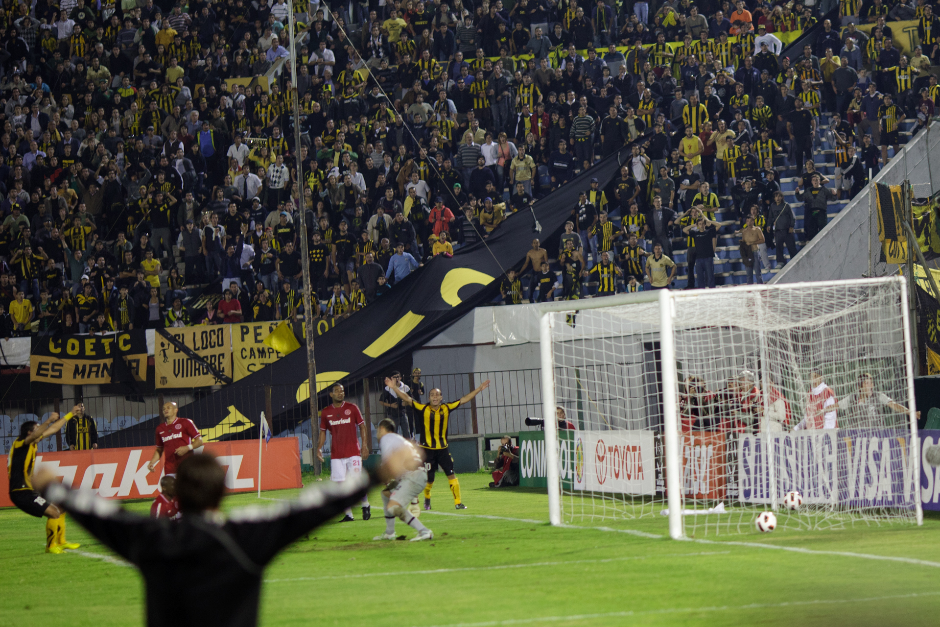 Peñarol players celebrating Corujo's goal of the Peñarol - Internacional game for the 2011 Copa Libertadores round of 16.